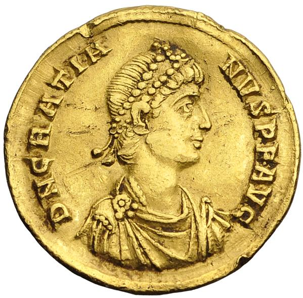 Gratian Solidus